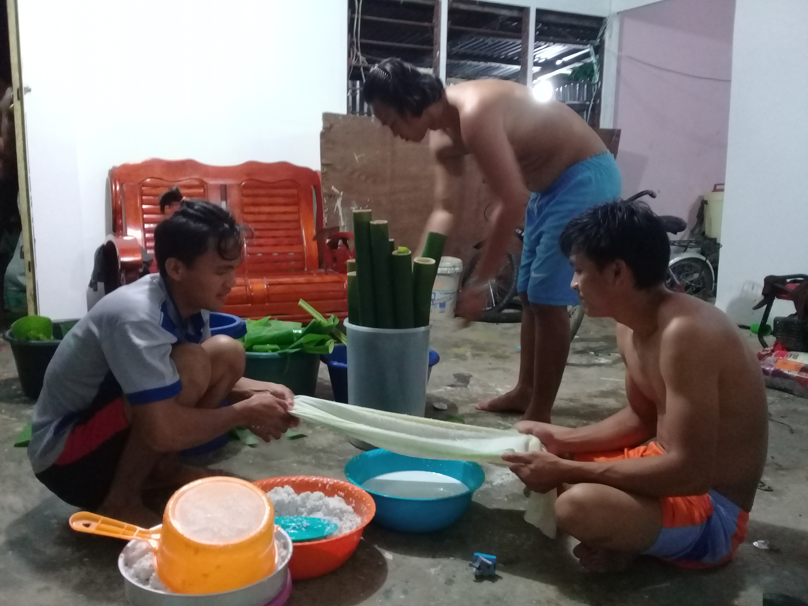 Membuat lemang sempena Hari Raya Aidilfitri